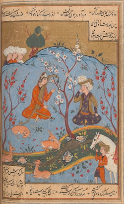 Bahram Gur listens as Dilaram enchants the animals From a manuscript of Amir Khusrau, Khamsa (Quintet) illustrated by Muʻiz al-Din Husayn Langari